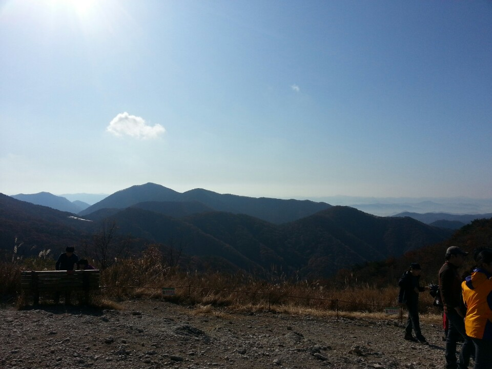 Mudeungsan